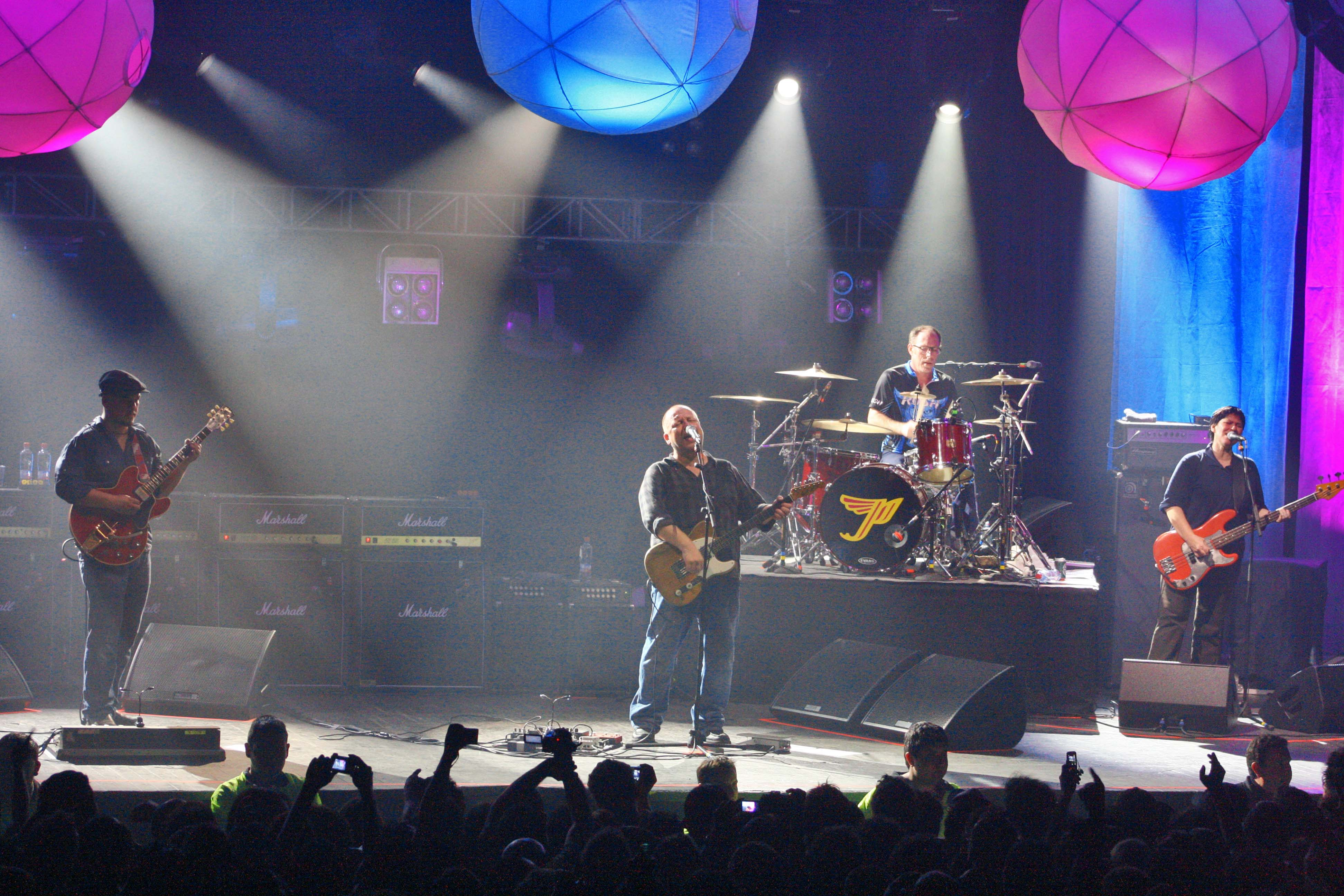 Pixies at Teatro La Cúpula.